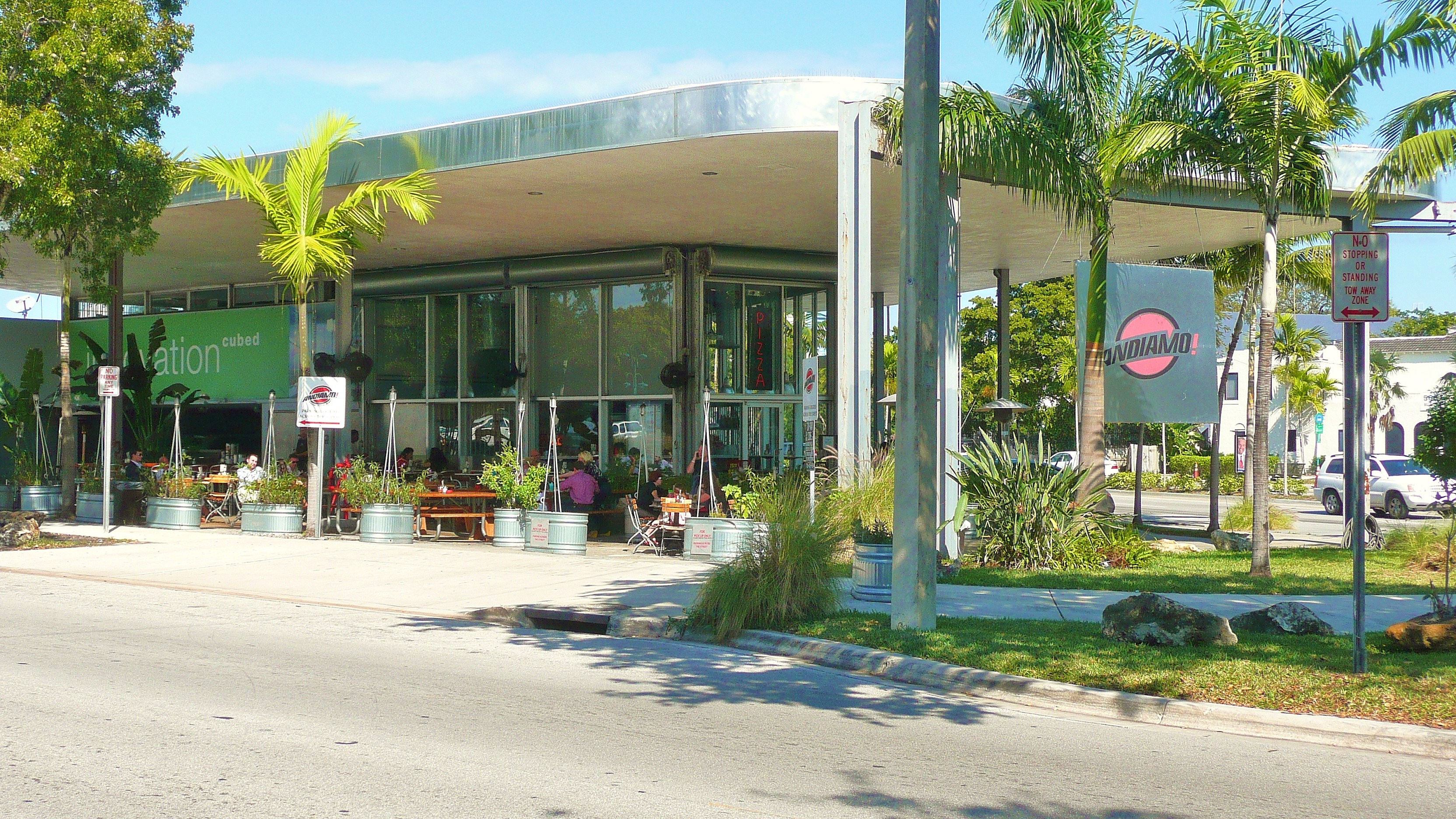 Digital photo taken by Marc Averette. MiMo District in Miami, Florida, United States.